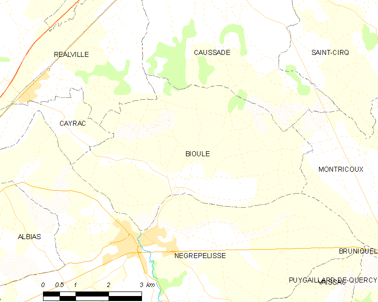 Map of French municipality Bioule